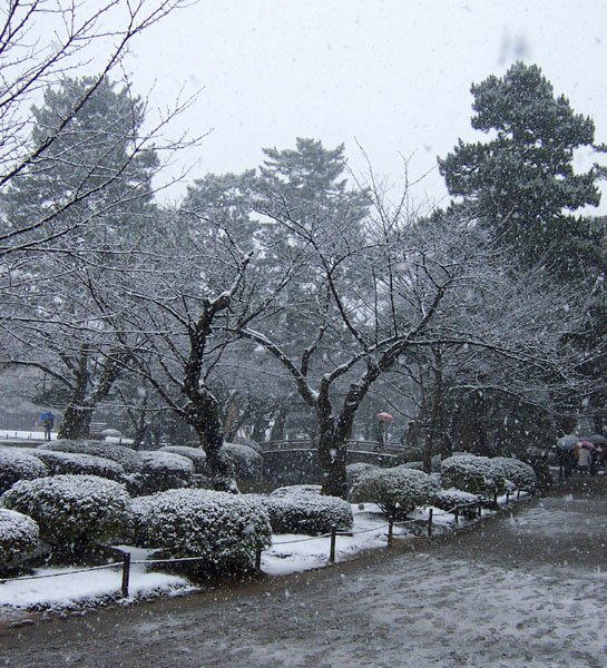 The labyrinthine garden of Kenrokuen.